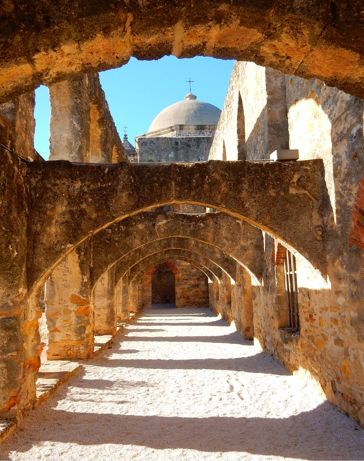 San Jose Mission, San Antonio, TX